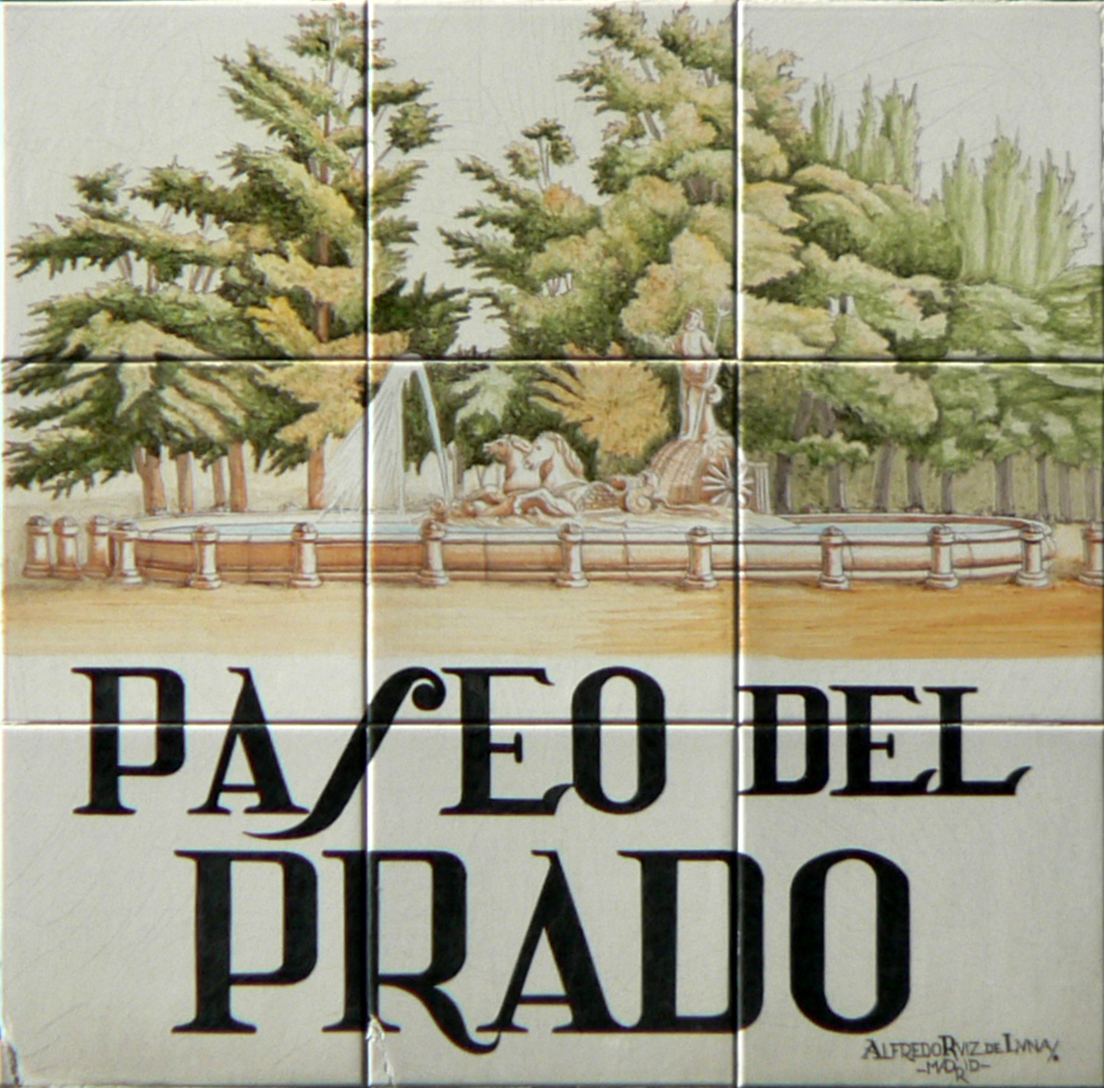 Sign of Paseo del Prado (street, Centro district) in Madrid (Spain).